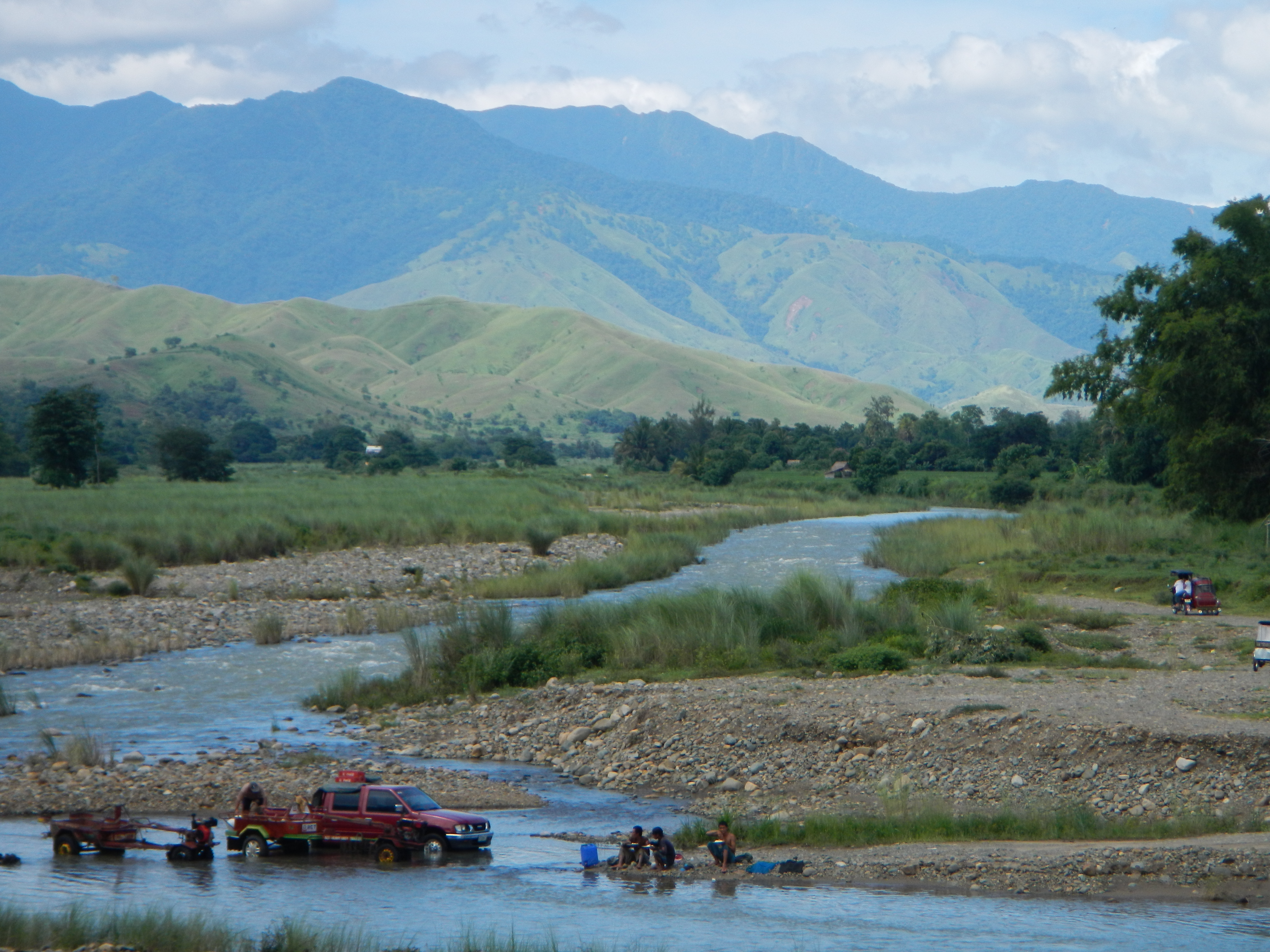 UploadWizard of Poetic, transcendental - beyond compare - "scenic, panoramic, mystic, and ultimate" Carranglan: (Baluarte) Bridges, Hillsides, [1] 15° 57' 56.53" N 121° 3' 7.62" E [2] Mount Carranglan, Carranglan River[3] Summit elevation approx. 610 meters Southwest of Carranglan, Nueva Ecija, Coordinates: 15°55'16"N 121°1'28"E [4] [5][6] [7] Carranglan River, [8] [9] [10] --- Carranglan, Nueva Ecija[11] is a second class municipality in the province of Nueva Ecija[12], Philippines - 2010 census, a population of 37,124 people - the province's largest municipality in terms of land area.[13]2013 Elections [14] [15] Land Area: 705.31 km² ZIP Code: 3123 [Coordinates: 15°59'42"N 121°1'40"ECarranglan road Latitude: 15°57'3.24"- Longitude: 120°59'58.2"[16]Mayor Restituto Abad dies 5 days after gun attack in Nueva Ecija Thursday, February 9th, 2012 The gunman, Jonathan Carpio, and the other suspects.